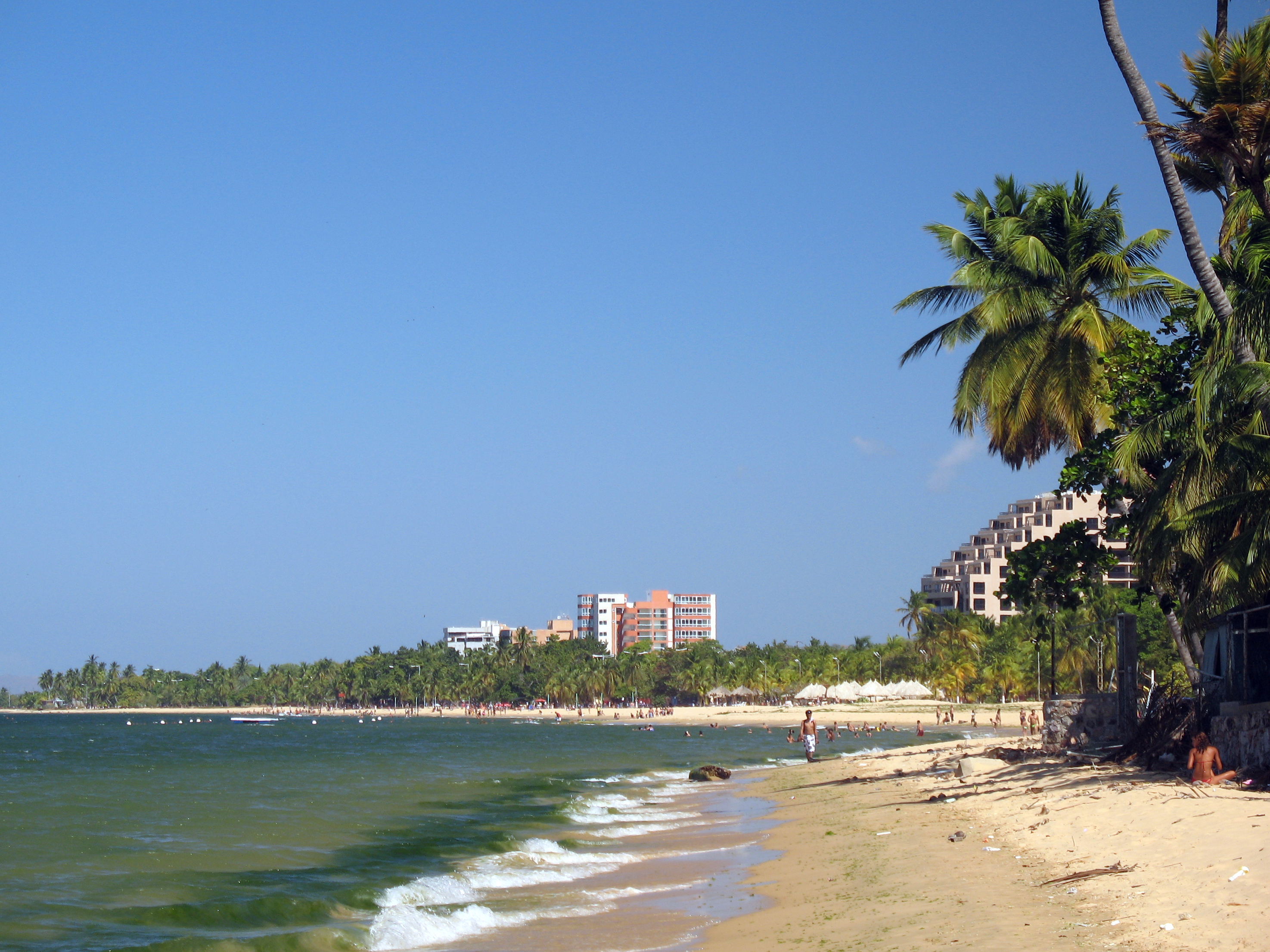 This photo is licensed under a Creative Commons license. If you use this photo within the terms of the license or make special arrangements to use the photo, please list the photo credit as "Guillermo Esteves" and link the credit to .